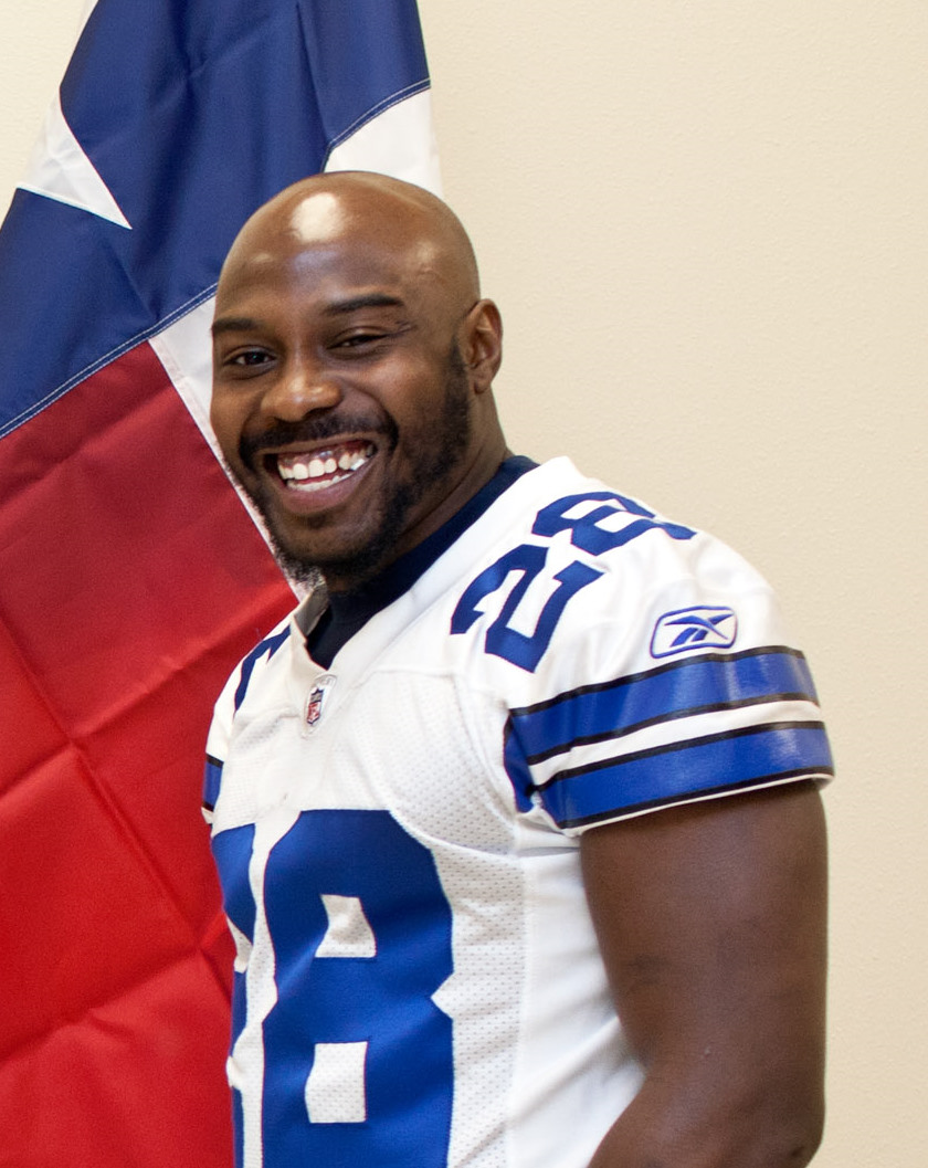 Felix Jones at the Kleberg Rylie Recreation Center in Dallas, Texas, Feb. 10, 2012. Jones was one of three Dallas Cowboys football players who joined Michelle Obama and chefs from past seasons of “Top Chef” for the “Schools and Chefs Working Together” cooking competition to help promote the “Let’s Move!” initiative. (Official White House Photo by Chuck Kennedy)